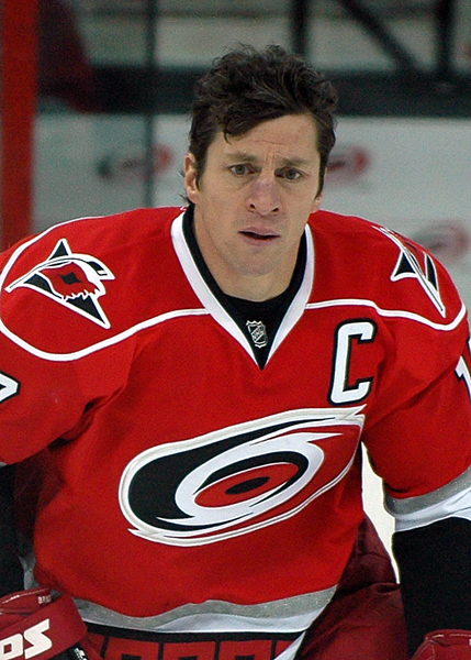 Rod Brind'Amour of the Carolina Hurricanes skates during warmups in a game against the New Jersey Devils on January 6, 2009.